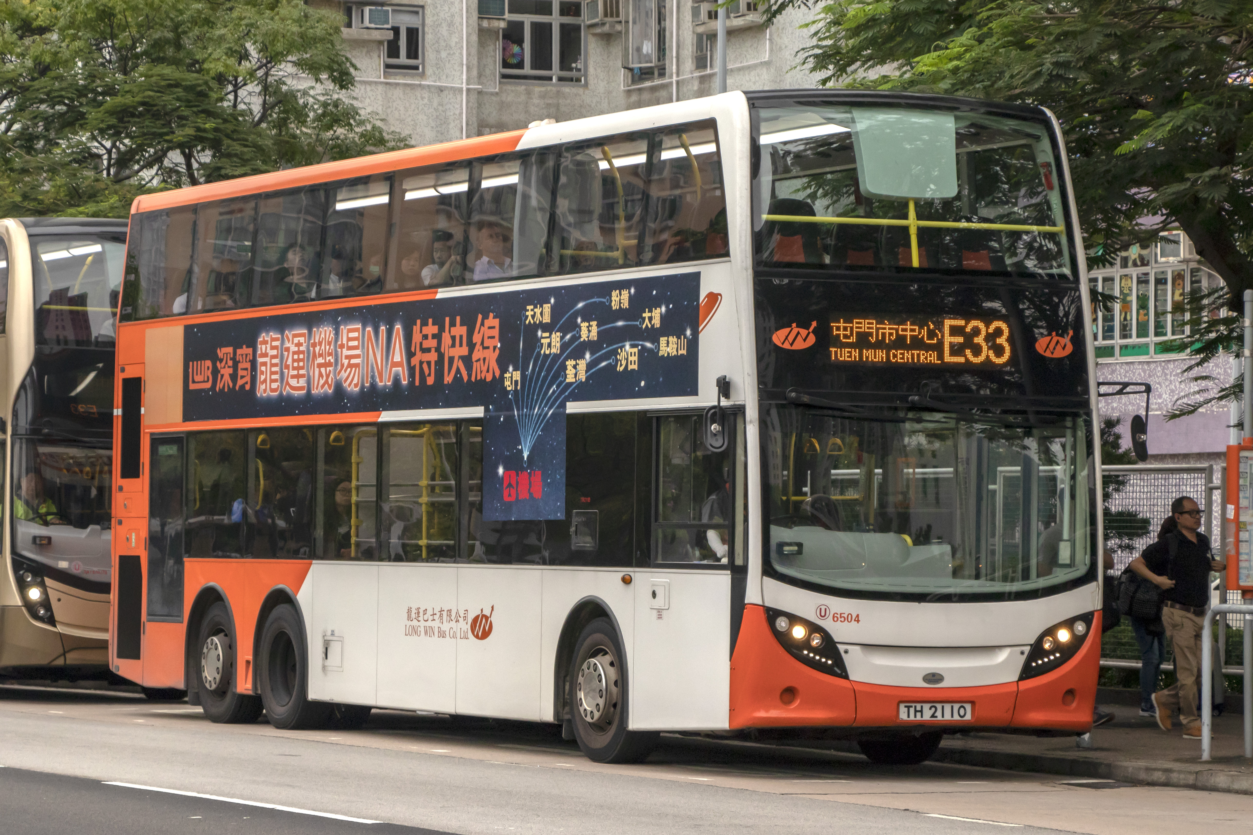 An LWB Enviro500 MMC on route E33